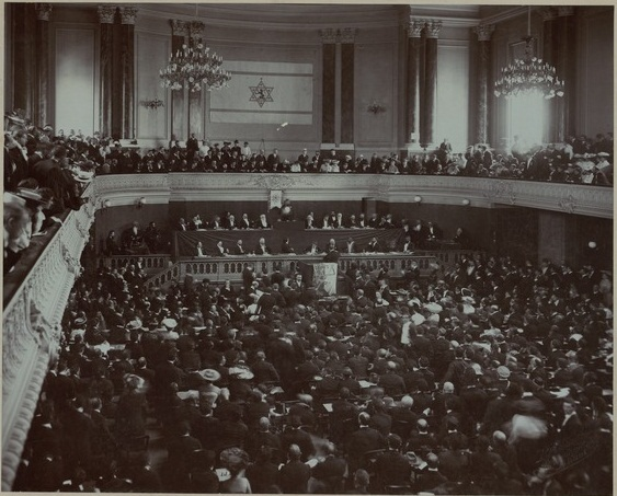 Photograph of the audience in the hall in which the opening of the Second Zionist Congress took place, in Basel, Switzerland, on 28 August 1898. On the podium, center stage, Dr. Binyamin Ze'ev (Theodor) Herzl is seen indistinctly, giving the keynote address. On Herzl's left is Max Nordau, and to his right, Dr. Mandelstam. On the wall in the gallery hall the flag of the Zionist movement is seen - two blue stripes, a shield of David containing seven stars and lion. The name of the photographer, Robert Spreng is imprinted on the bottom right-hand corner of the photograph. On the back of the photo, Dr. Joseph Chazanowitz has added a hand-written note, identifying a photograph with the First Zionist Congress, but apparently this is a mistake, and the photo was taken at the opening of the Second Zionist Congress. This photograph was donated to the library by Dr. Chazanowitz, early twentieth century.